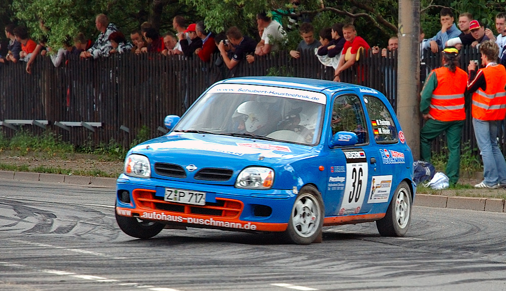 This image shows a Nissan Micra. This photo has been taken during the Saxony rally racing 2005 in Zwickau (Germany).